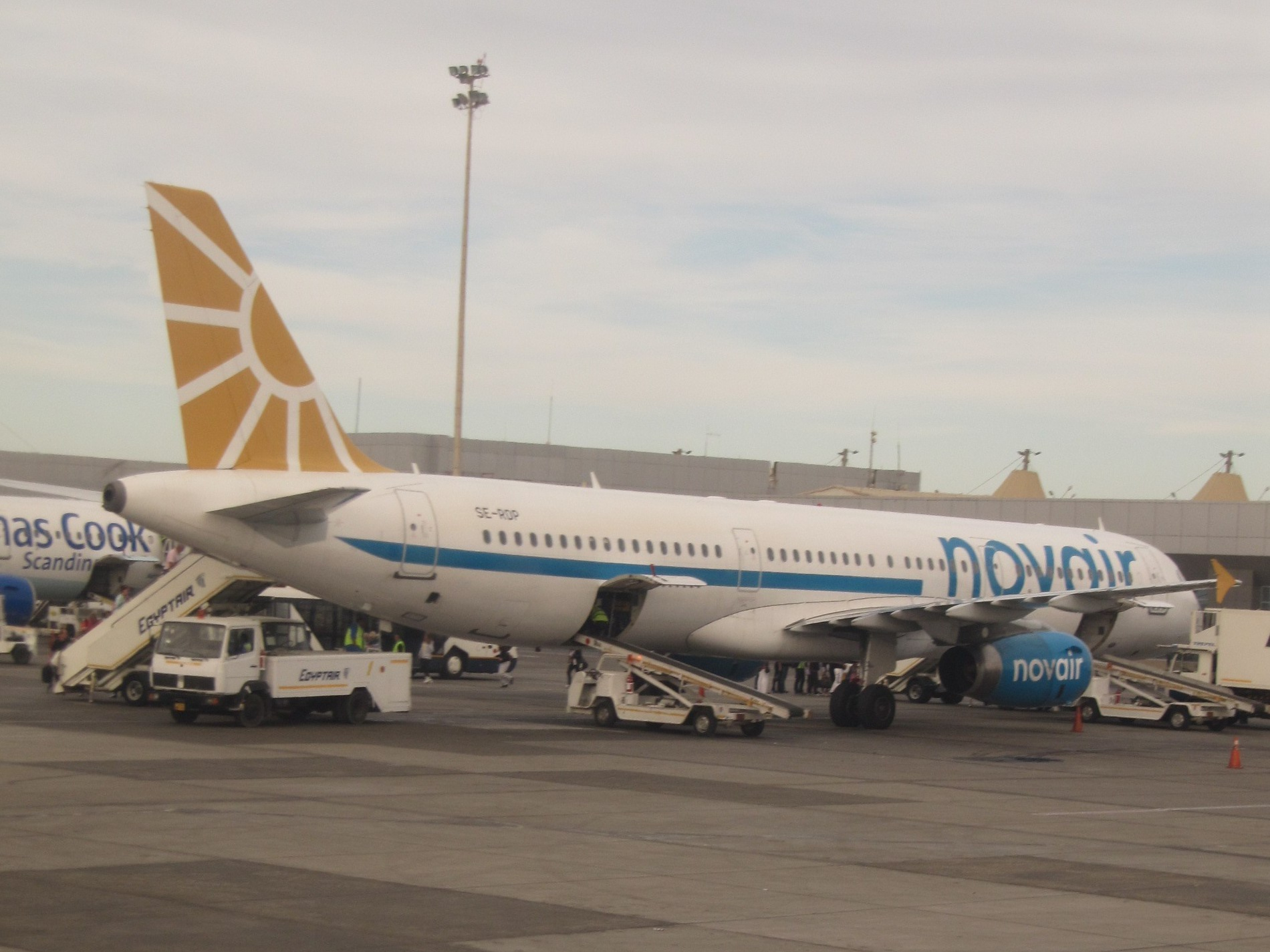 Novair